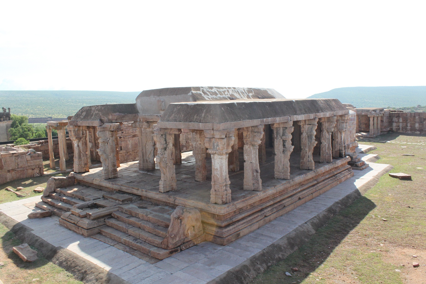 Fort with enclosed ancient buildings, Madhavaperumal temple